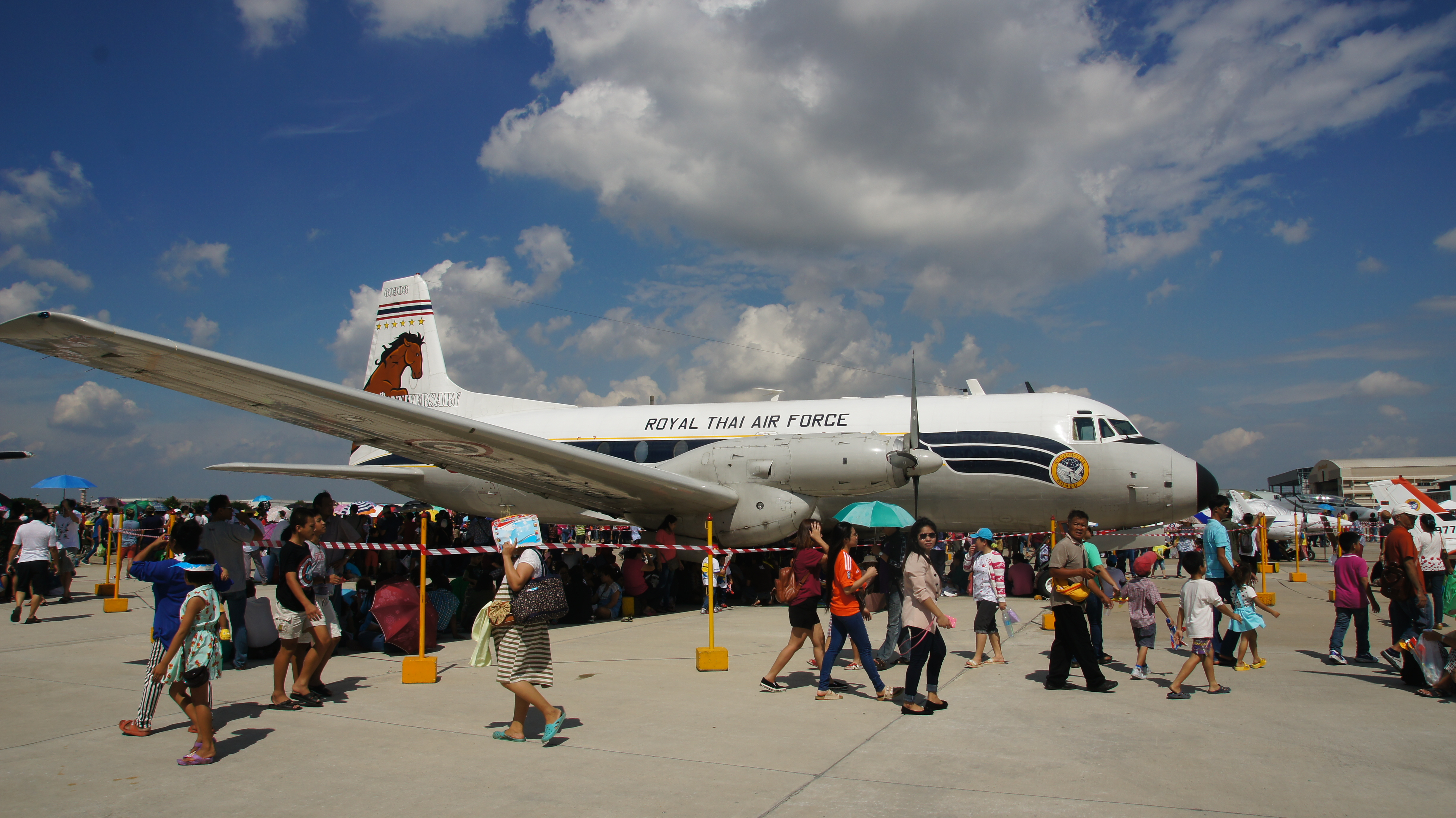 HS 748 Royal Thai Airforce Children day 2016 (9-Jan 2016)